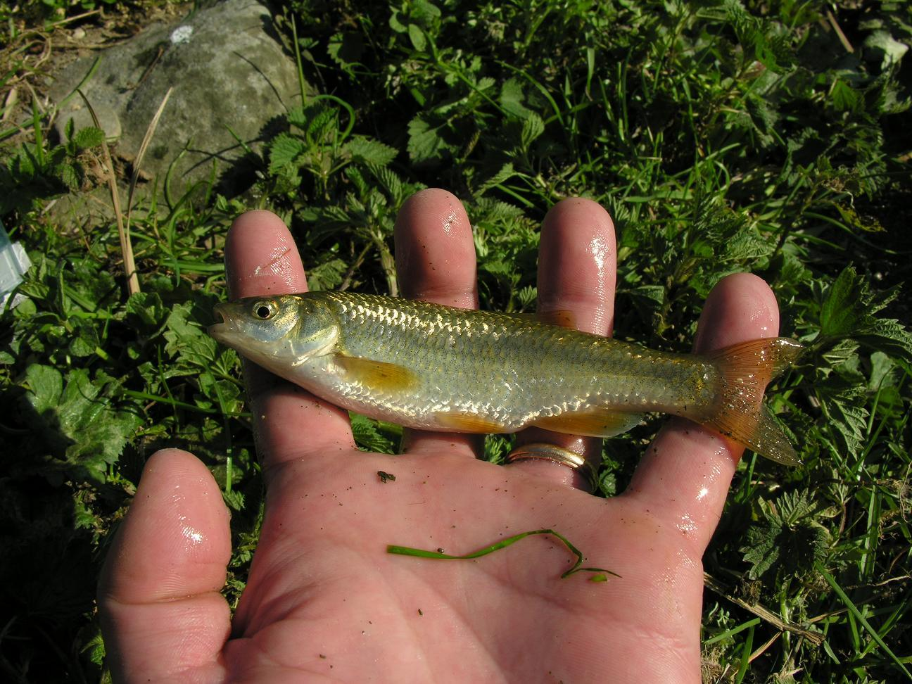 Squalius lucumonis photographed in Tuscany, Italy. Photo by Nicola Fortini. Released after photo.